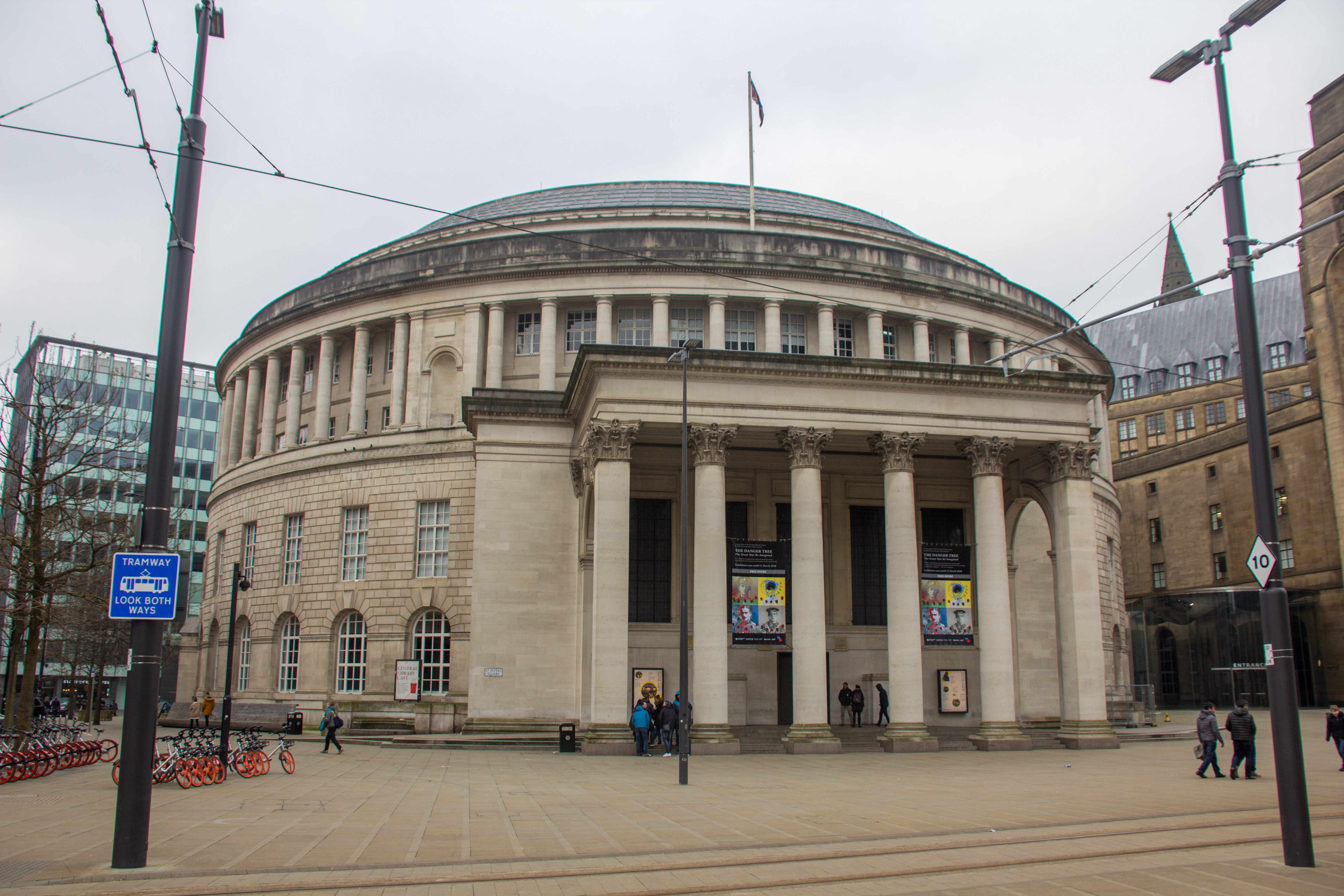 At Manchester, UK